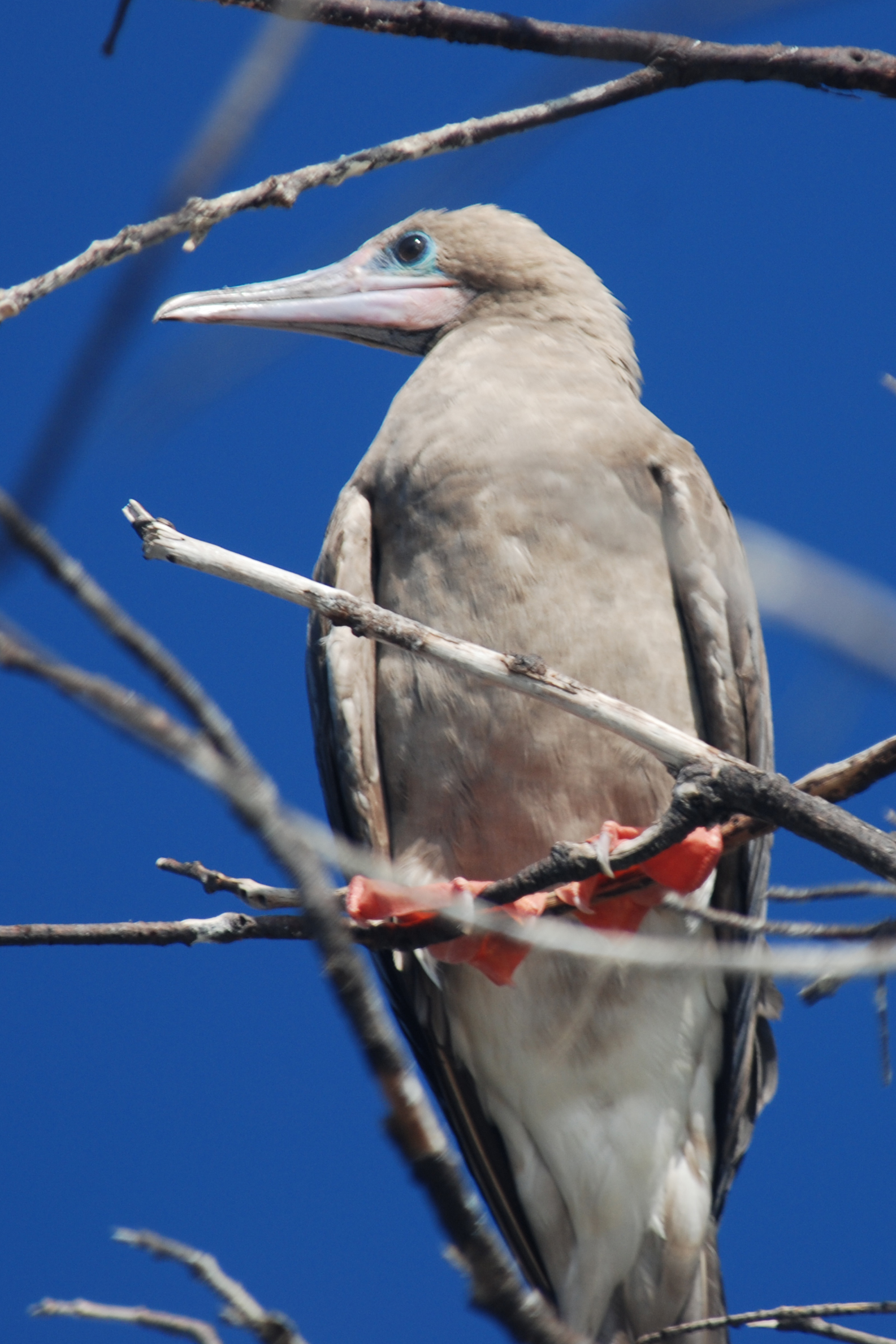 Red-footed Booby (Sula sula) on Little Cayman Island in a snag on the beach. Every morning we went out diving we would see groups of them heading out to sea. Red-footed Boobies are spectacular divers, plunging into the ocean at high speed. When they come back to land with the fish they have to dodge large Frigate birds that are waiting to harrass them until their drop their food. Little Cayman has a large preserve for the Boobies to bred in, there are around 5,000 pairs on the island.